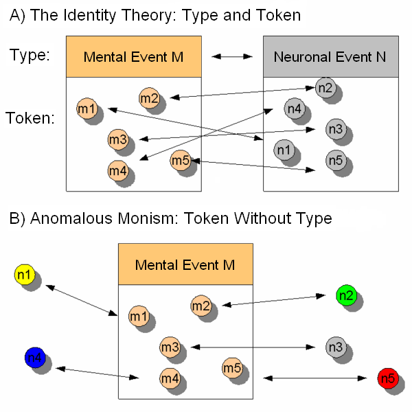 Contrast of Classic identity theory with anomalous monism (translation of German picture)